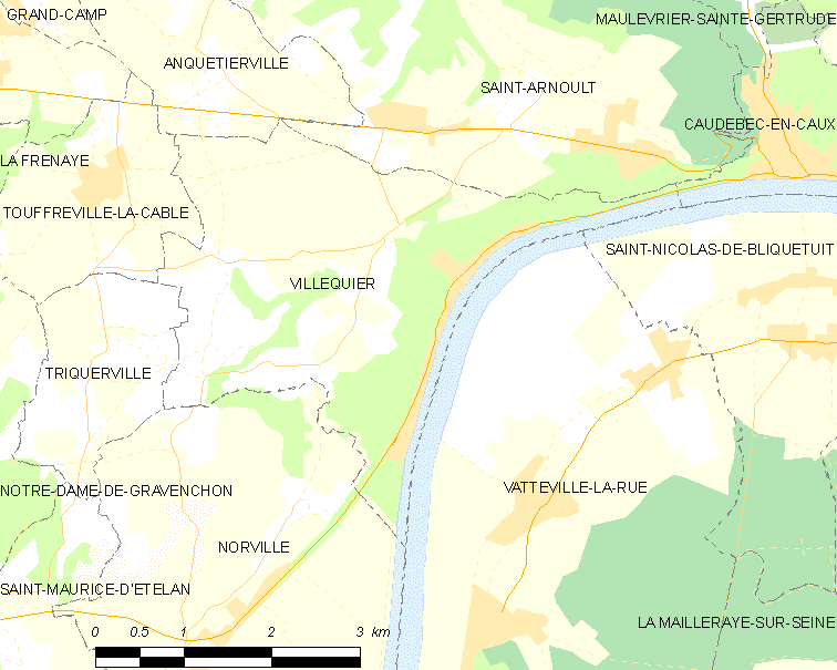 Map of French municipality Villequier